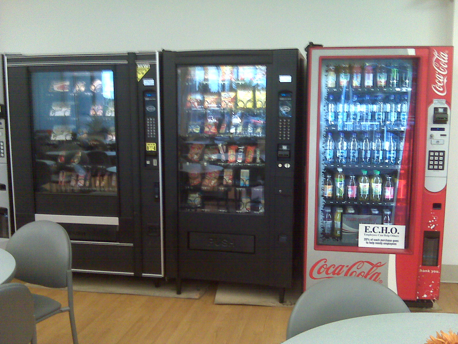 Vending machines in the cafeteria at Charlotte Regional Medical Center, Punta Gorda, Florida